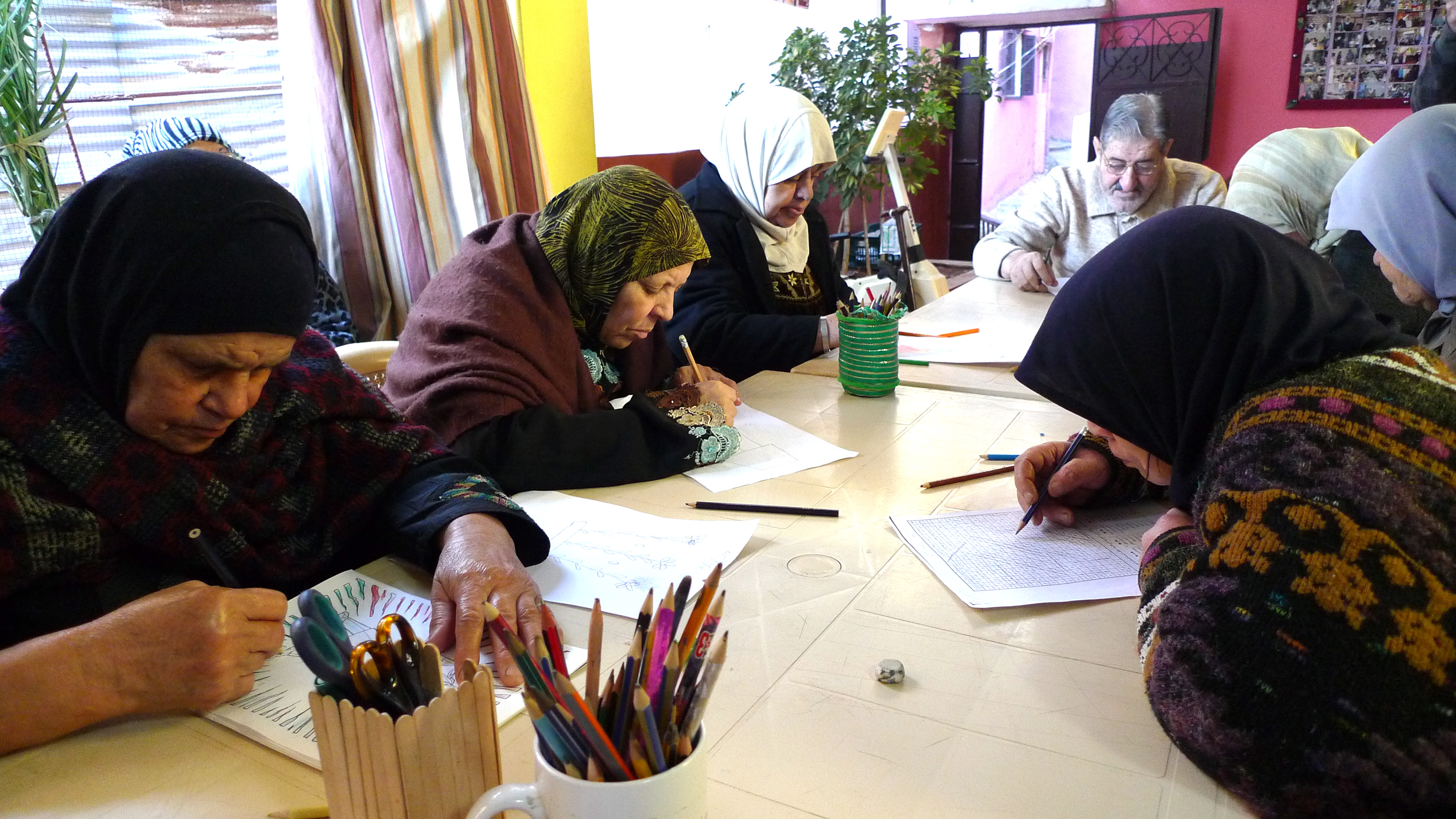 A group of Bourj el-Barajneh's elderly residents color, draw and solve crossword puzzles at the refugee camp's Active Ageing House.